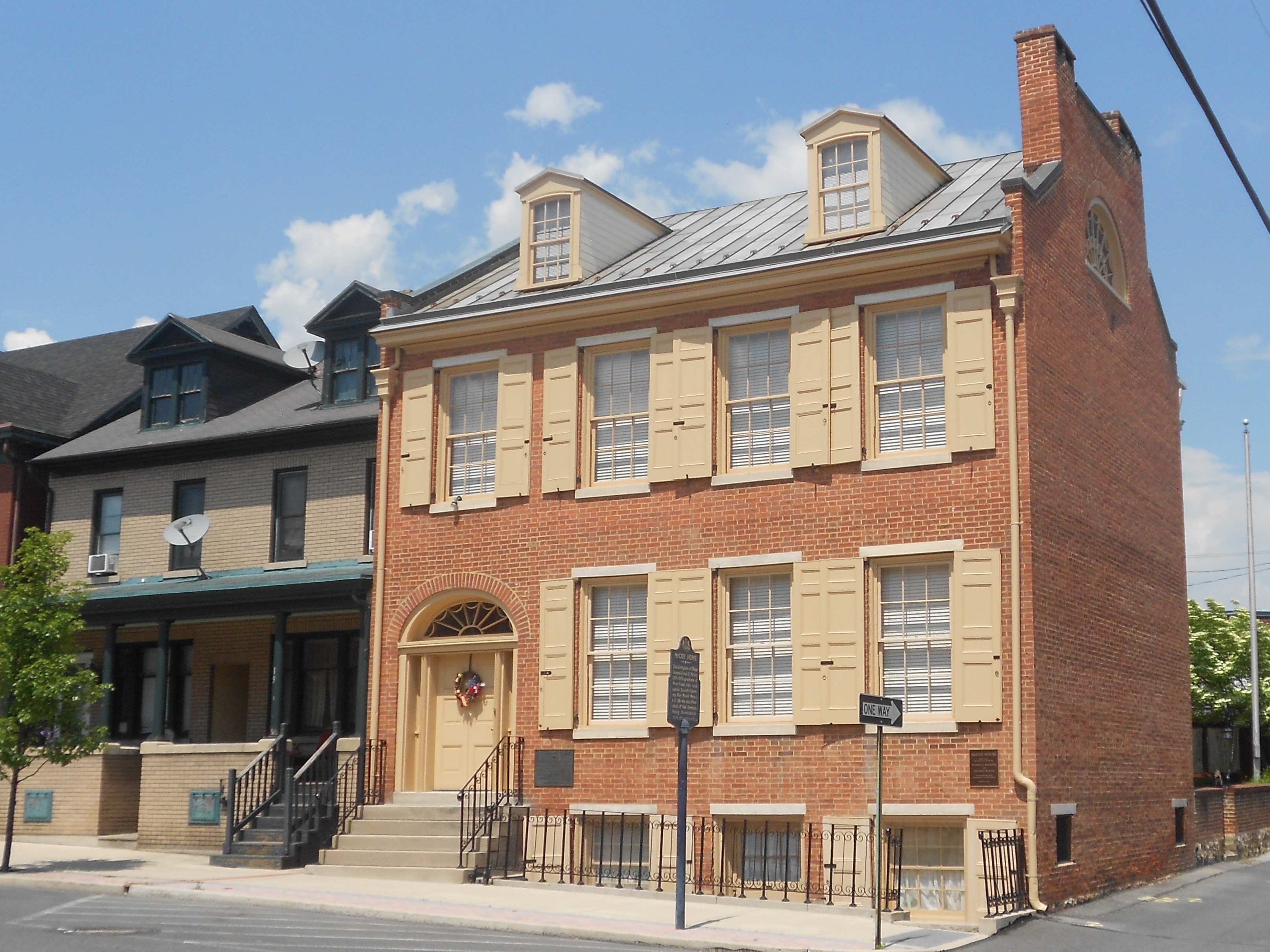 Frank McCoy House Lewistown, Pennsylvania. There is a PHMC state historical marker in front of the building (view is sideways only in this pic)